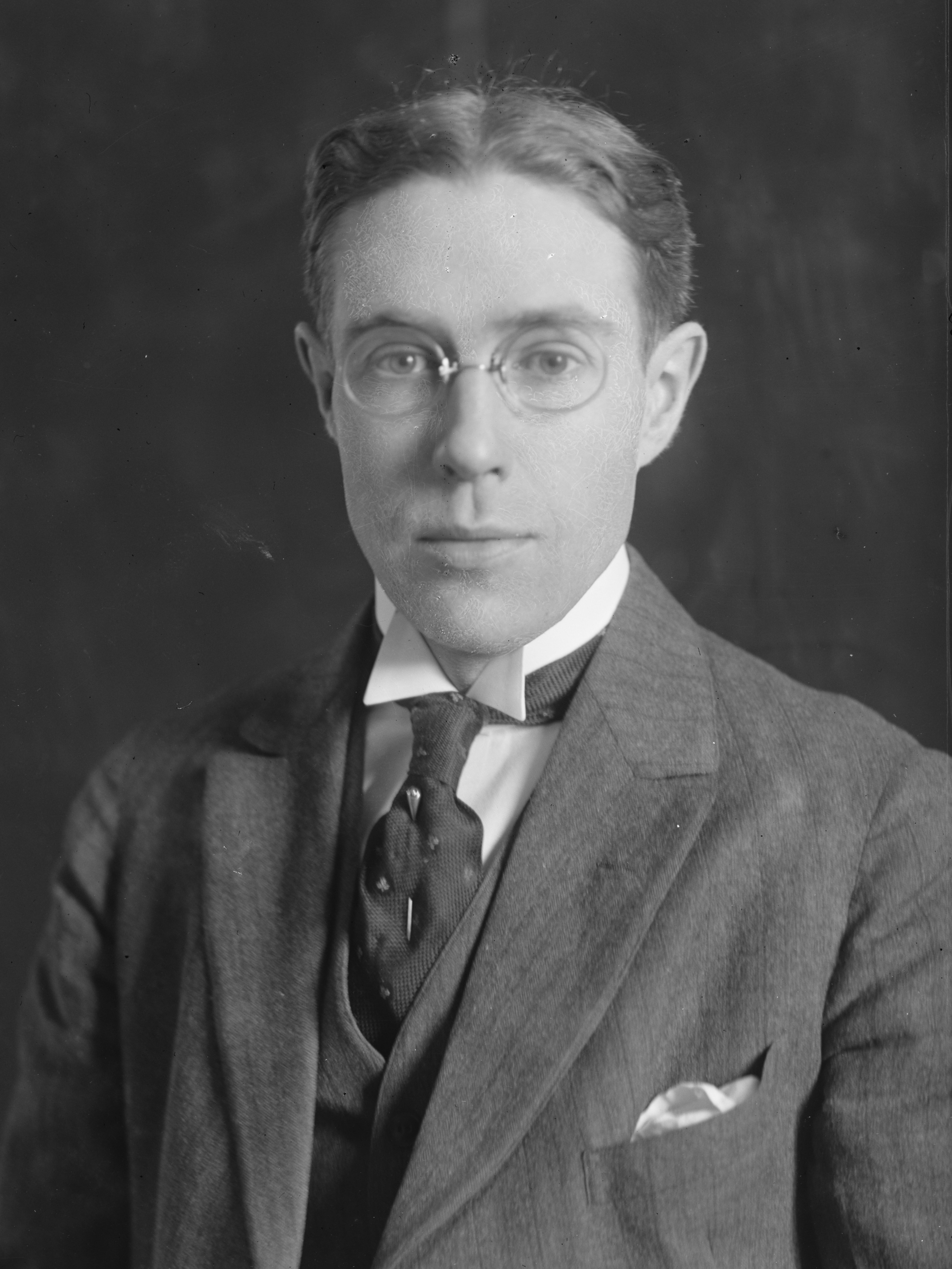 Journalist, novelist, and editor Francis R. Bellamy